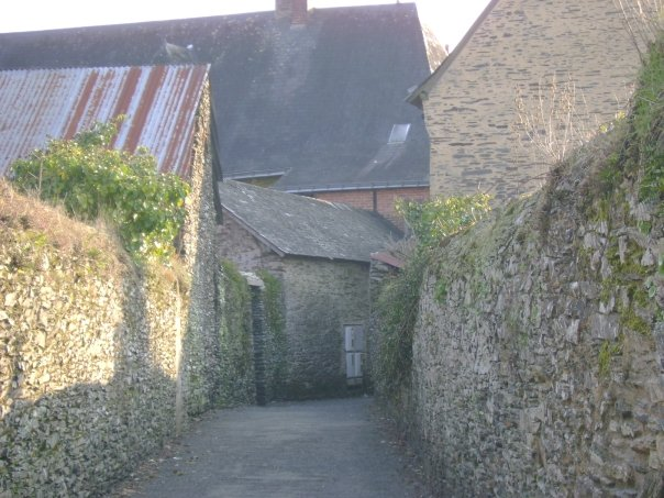 Old walls in shale in the medieval part of Candé, Maine-et-Loire, France